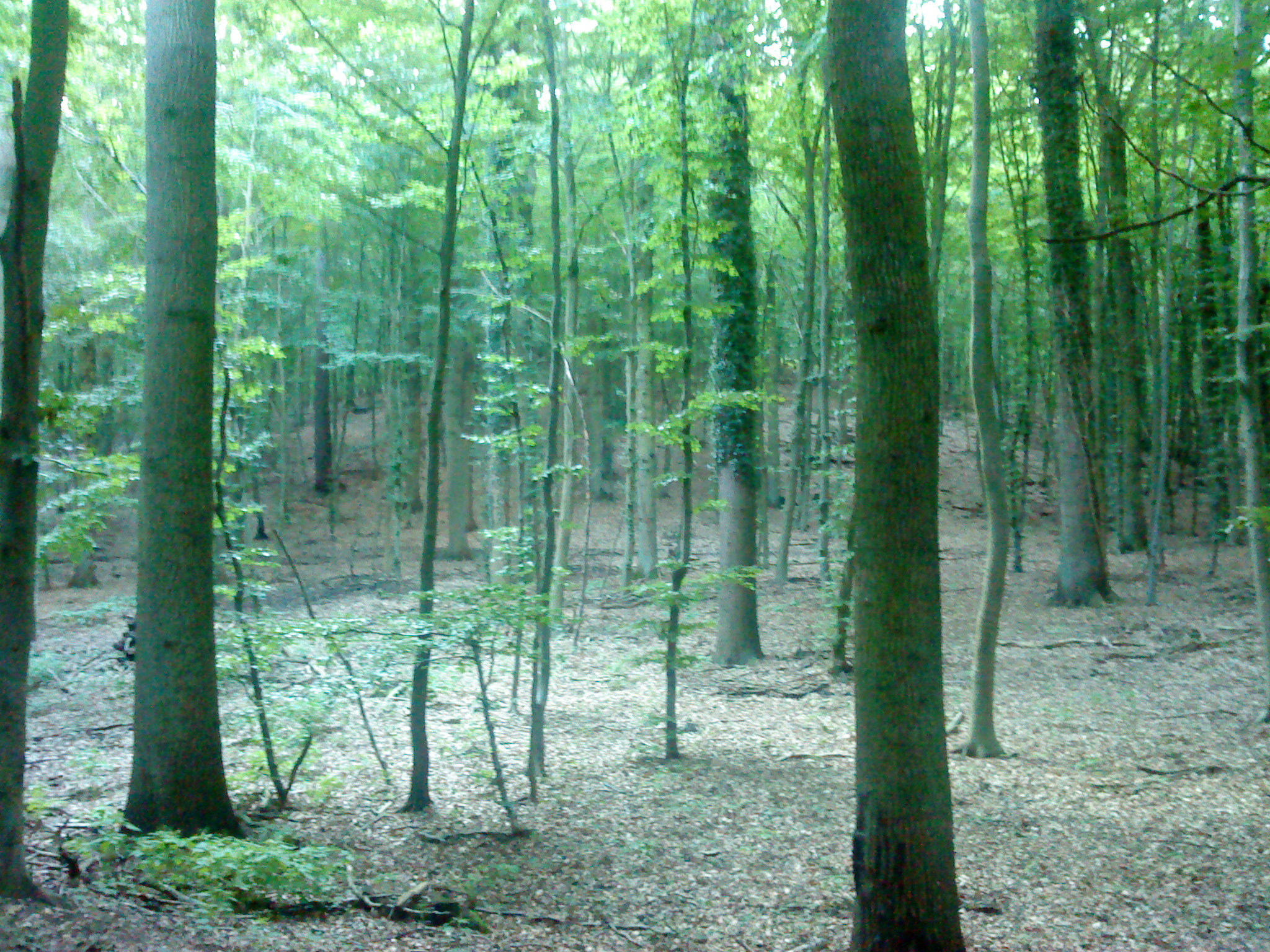 Granitz